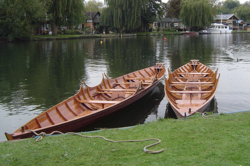 A pair of racing skiffs on the River Thames (copy own work from English wiki)